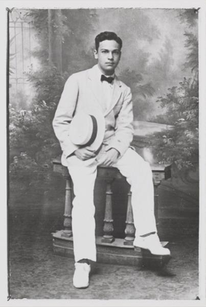 Edgar du Perron (1899-1940). Photograph made before 1921 in Indonesia.